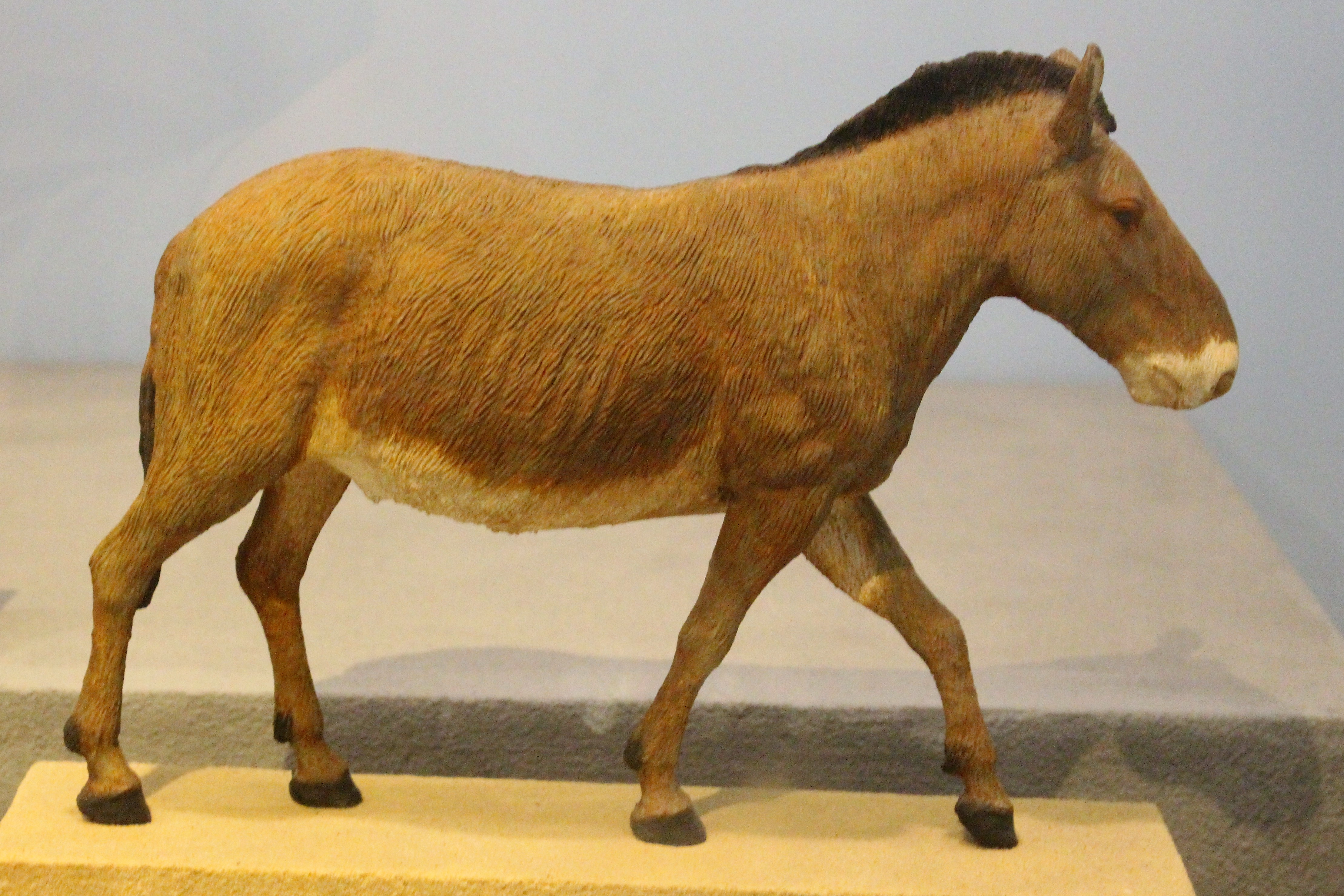 The model of an unidentified Hippidion sp. at the Natural History Museum in London, England.